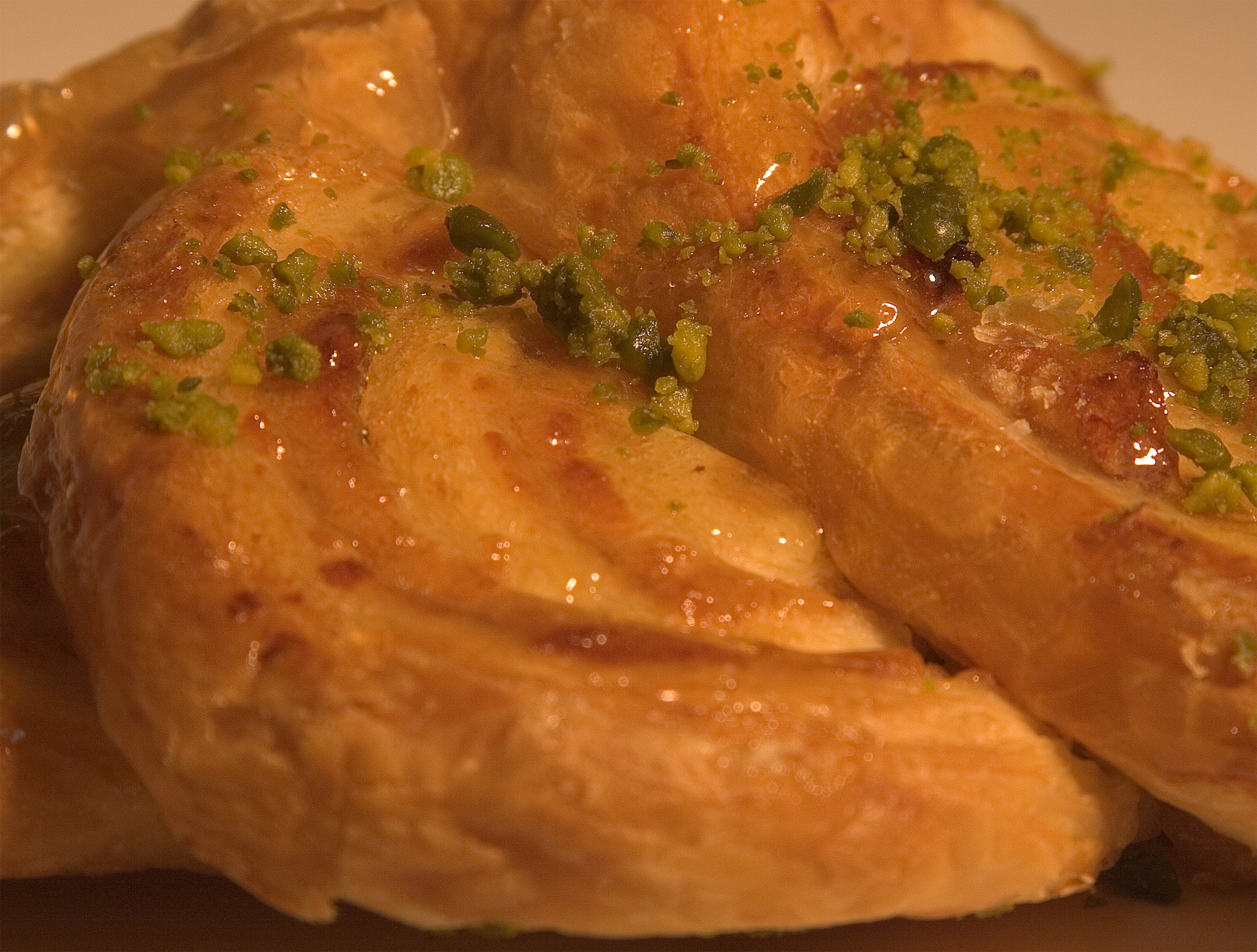 Close-up of a Praline Pear Danish pastry.